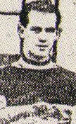 Photograph of Charlie Cotch, at the 1924 Montreal Canadiens training camp